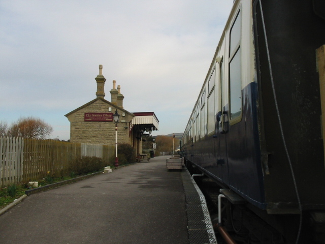 Old railway station at West Bay. The railway left here many years ago, but a short length of track remains at the station. The station building is now used as a seasonal cafe. The carriages present when the picture was taken were used as a restaurant, but have now (August 2008) been removed.